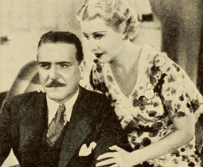 Frank Morgan and Genevieve Tobin in the 1934 film, By Your Leave Other information for an explanation of the copyright for information regarding public domain